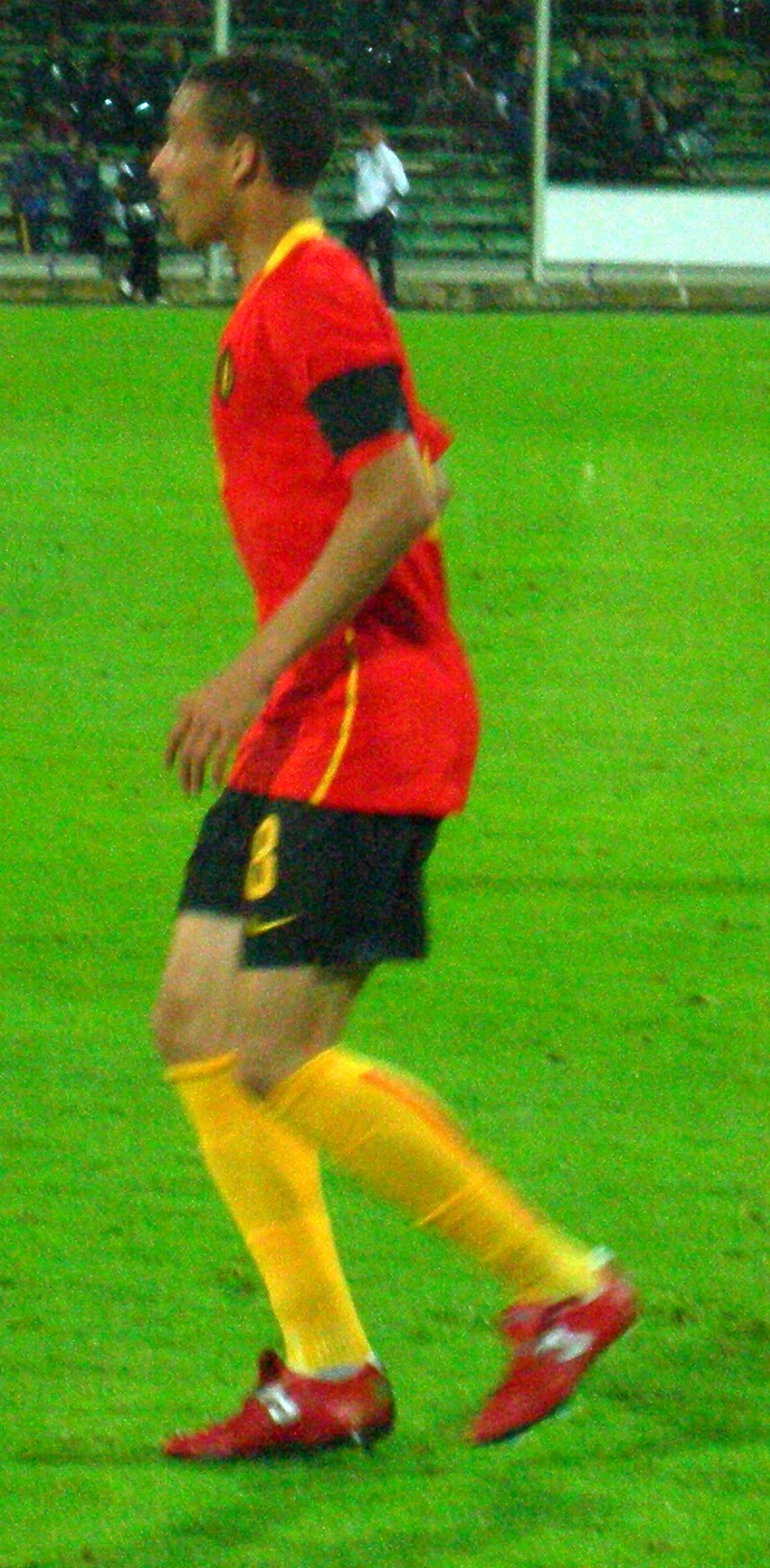 Player photo, made during the friendly football match Italy vs Belgium, played May 30, 2008 in Florence (Italy)